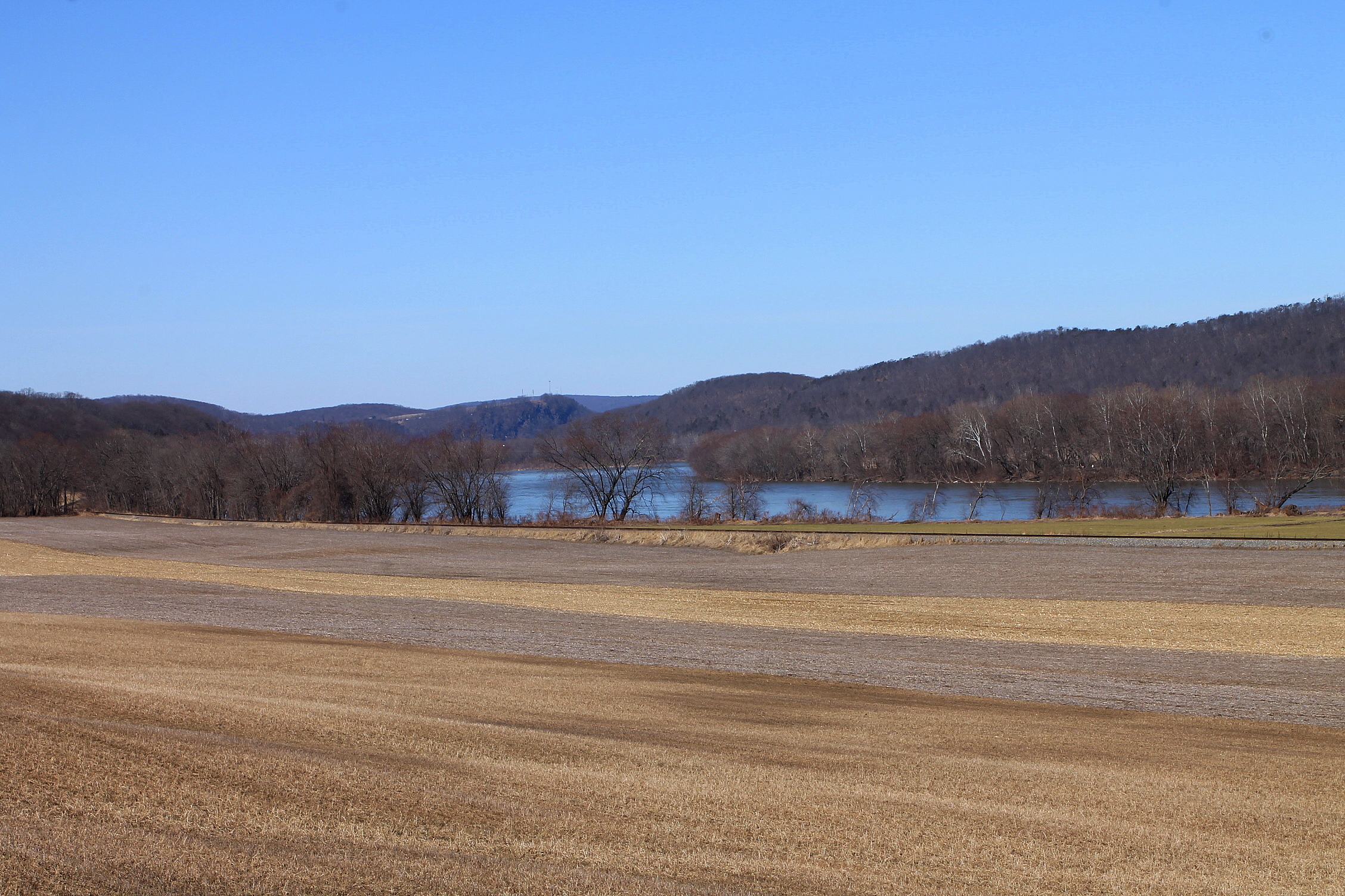 Fields, woods, mountains, and the Susquehanna River in late March 2015. Viewing Northumberland County and Montour County.